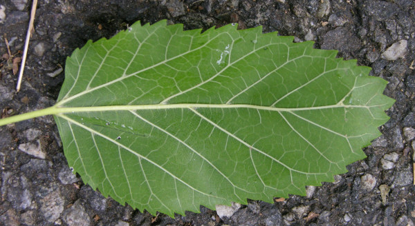 White Mulberry Leaf Underside (Morus alba). Photo by Derek Ramsey (Ram-Man) Species identification performed by G Sternberg and others. Photo taken at the Ridley Creek State Park.